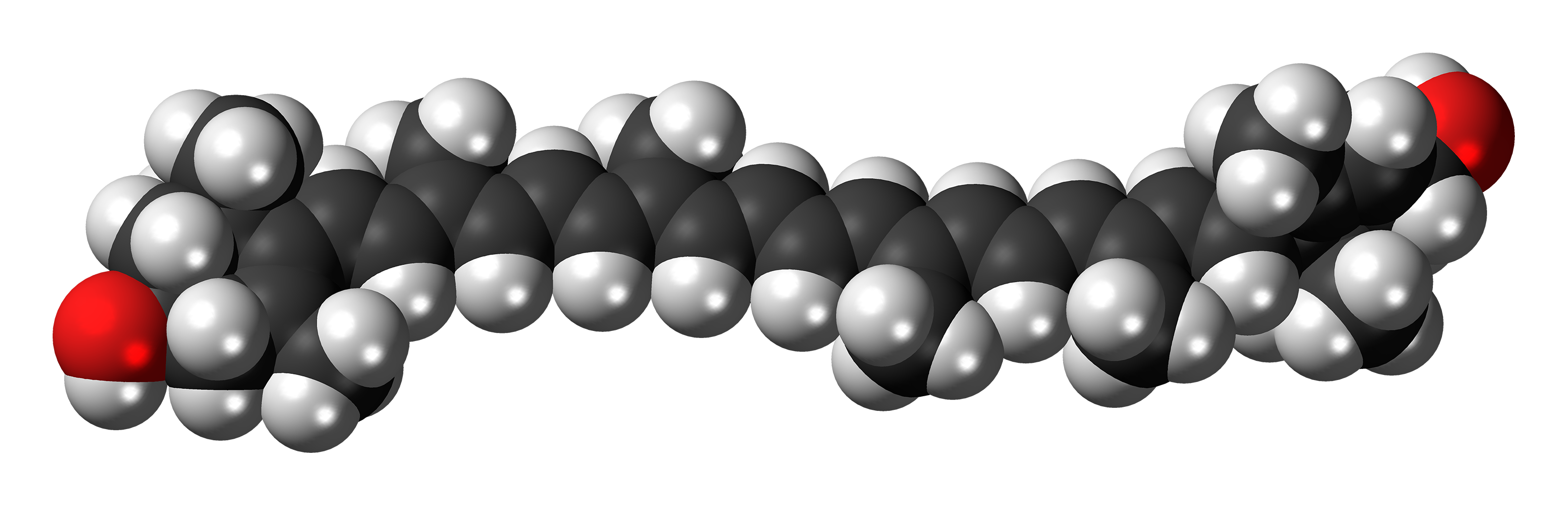 Space-filling model of the lutein molecule, a compound used by plants to protect themselves from intense light]. Color code: Carbon, C: black Hydrogen, H: white Oxygen, O: red